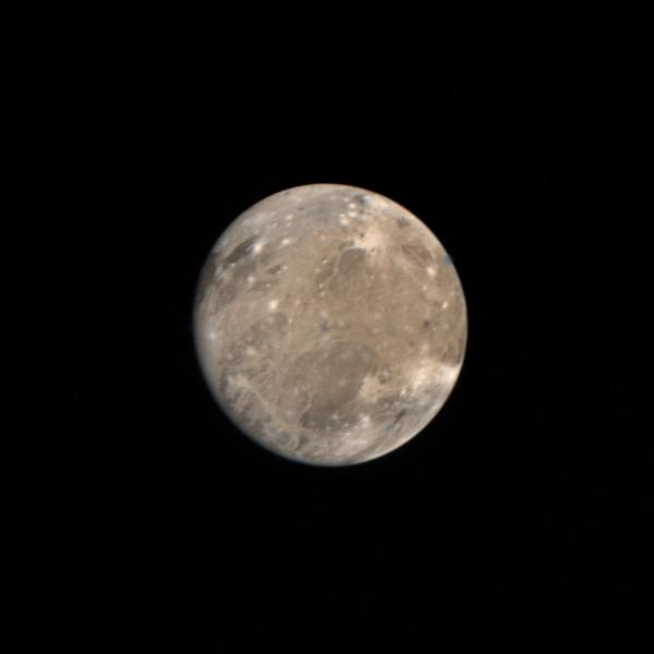 This picture was taken on March 4, 1979 at 2:30 A.M. PST by Voyager 1 from a distance of 2.6 million kilometers (1.6 million miles). Ganymede is Jupiter's largest satellite with a radius of about 2600 kilometers, about 1.5 times that of our Moon. Ganymede has a bulk density of only approximately 2.0 g/cc almost half that of the Moon. Therefore, Ganymede is probably composed of a mixture of rock and ice. The features here, the large dark regions, in the northeast quadrant, and the white spots, resemble features found on the Moon, mare and impact craters respectively. The long white filaments resemble rays associated with impacts on the lunar surface. The various colors of different regions probably represent differing surface materials. There are several dots on the picture of single color (blue, green, and orange) which are the result of markings on the camera used for pointing determinations and are not physical markings.